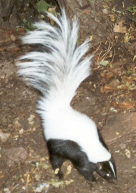 Hooded skunk, Mephitis macroura